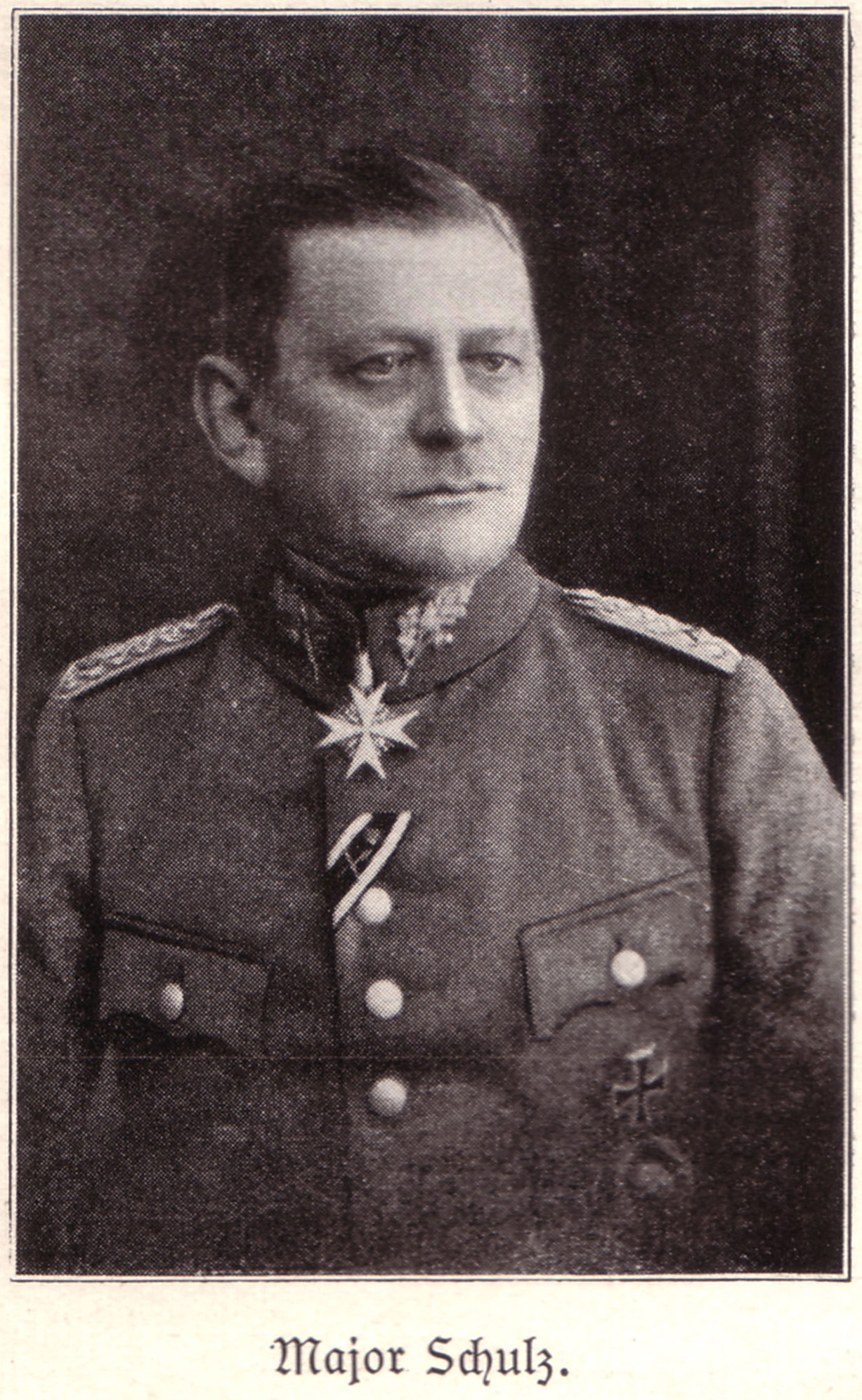 Prussian Major Walter Schulz in Freicorps-tunic